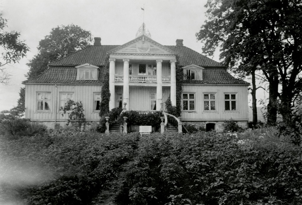 The farm Rising in Gjerpen, estate of Ole Paus, childhood home of Knud Ibsen